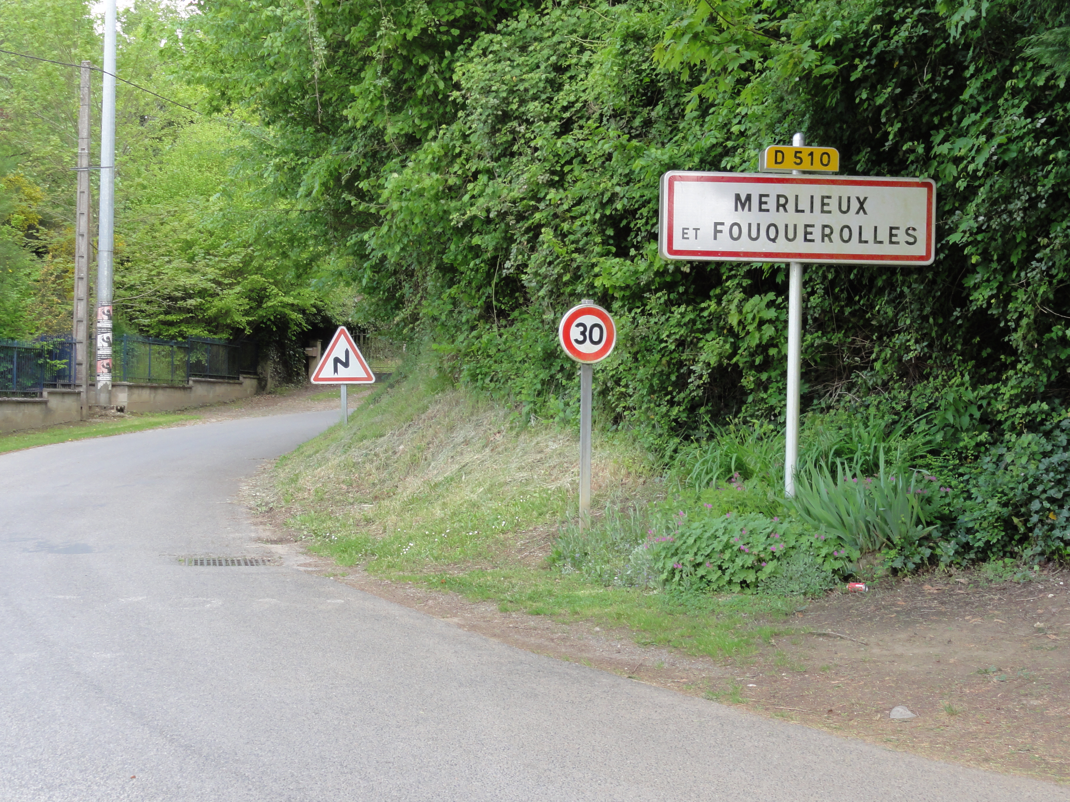 Merlieux-et-Fouquerolles (Aisne) city limit sign